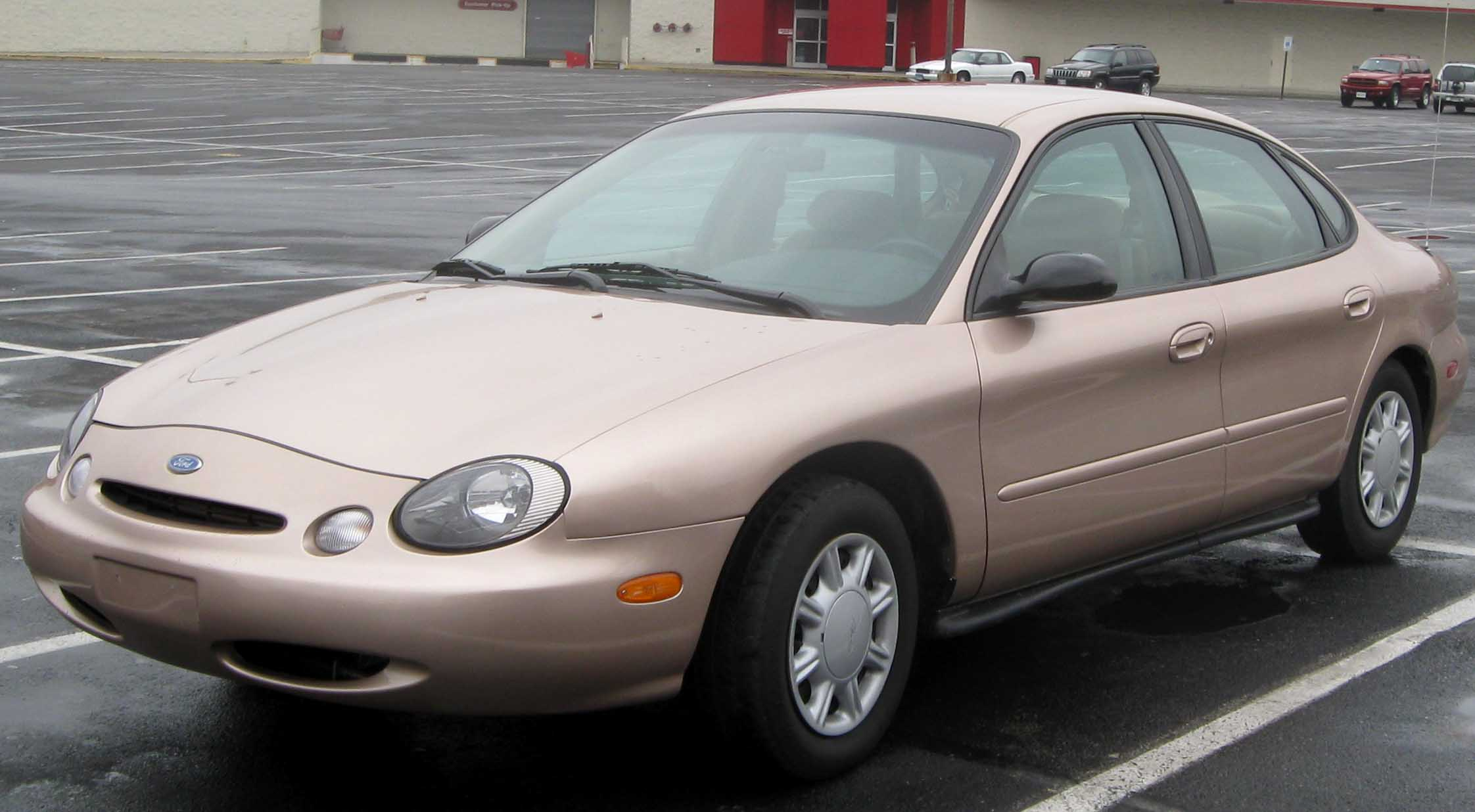 1996-1997 Ford Taurus photographed in Wheaton, Maryland, USA.